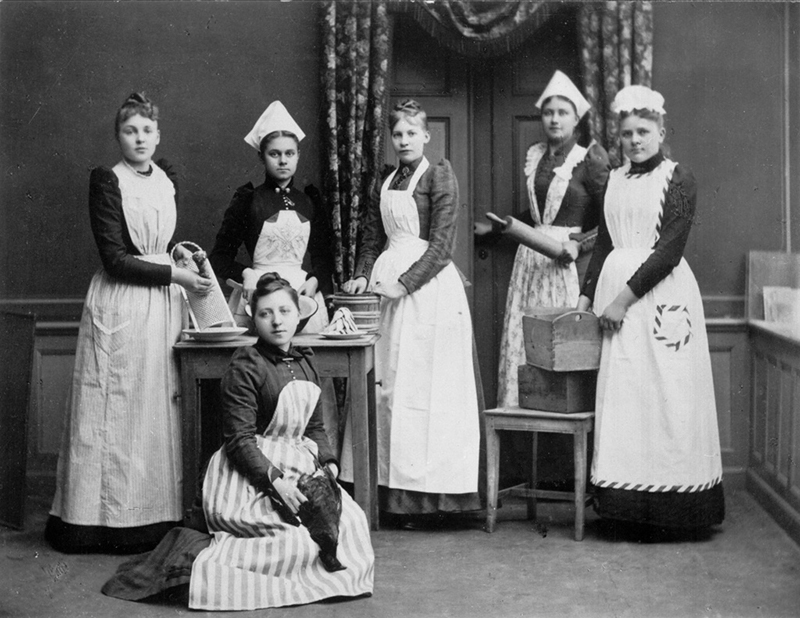 Students at Uppsala Household School. The girls are dressed in dark dresses and bright aprons. Three of them have a white cap on their heads. The girls are holding various household utensils. Behind them you can see a door and a curtain.